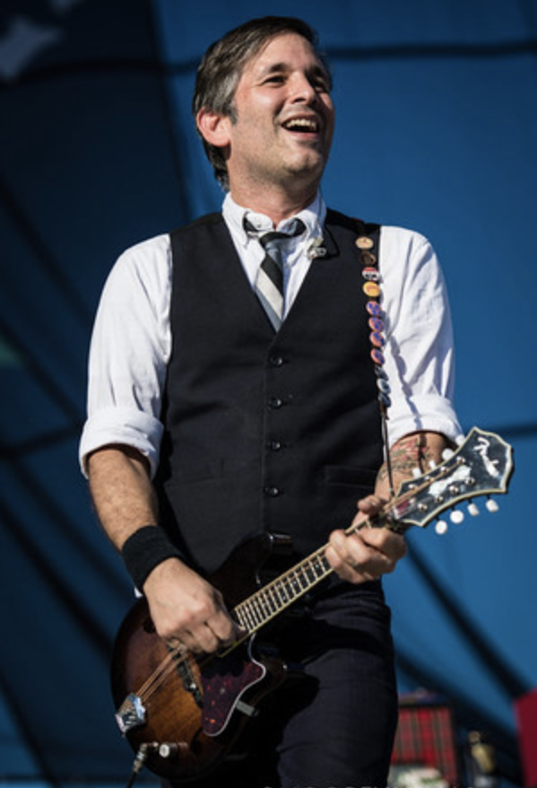 Bob Schmidt performs at the 97X Next Big Thing outdoor festival, St Petersburg, FL.